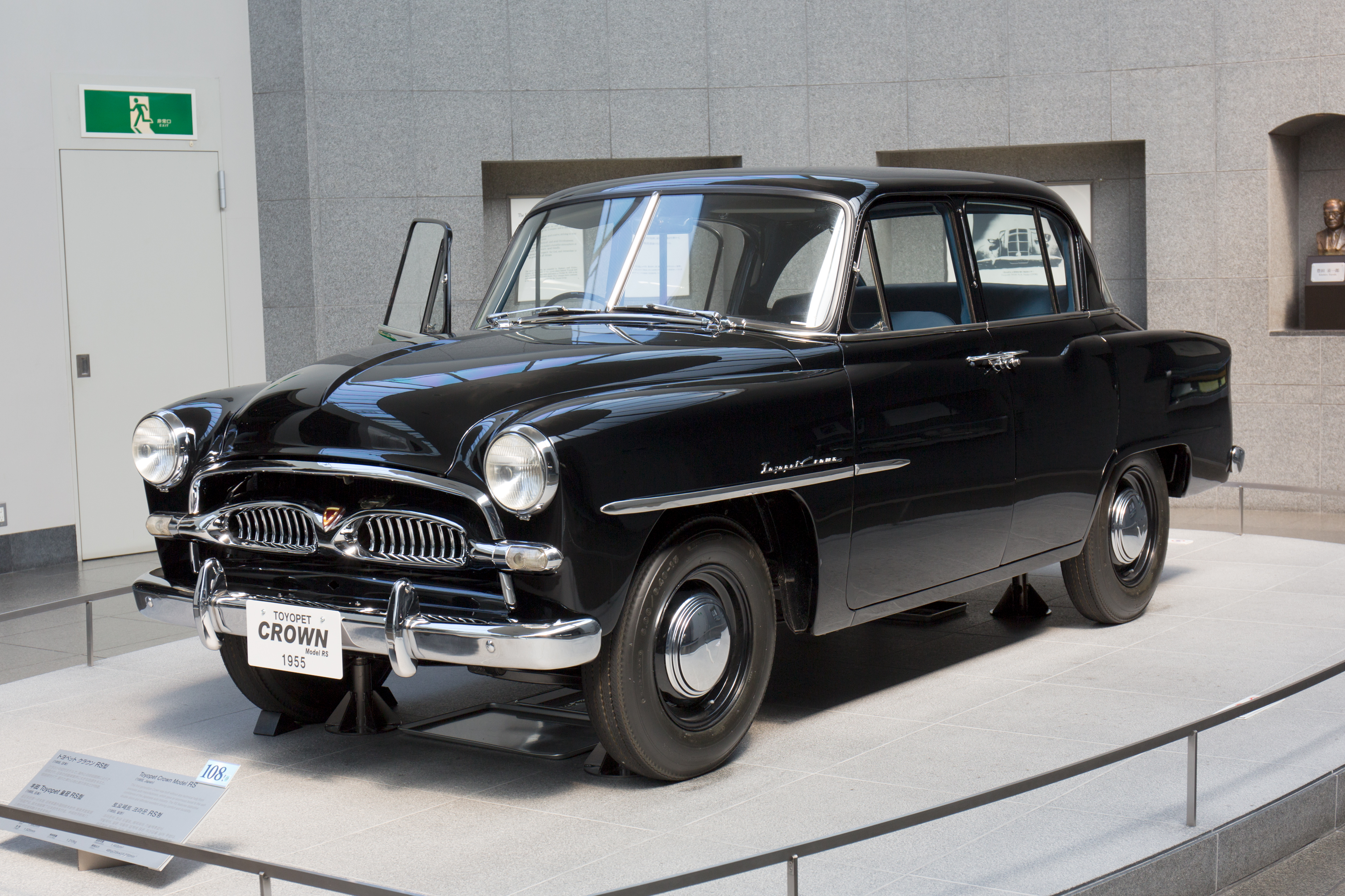 1955 Toyopet Crown RS